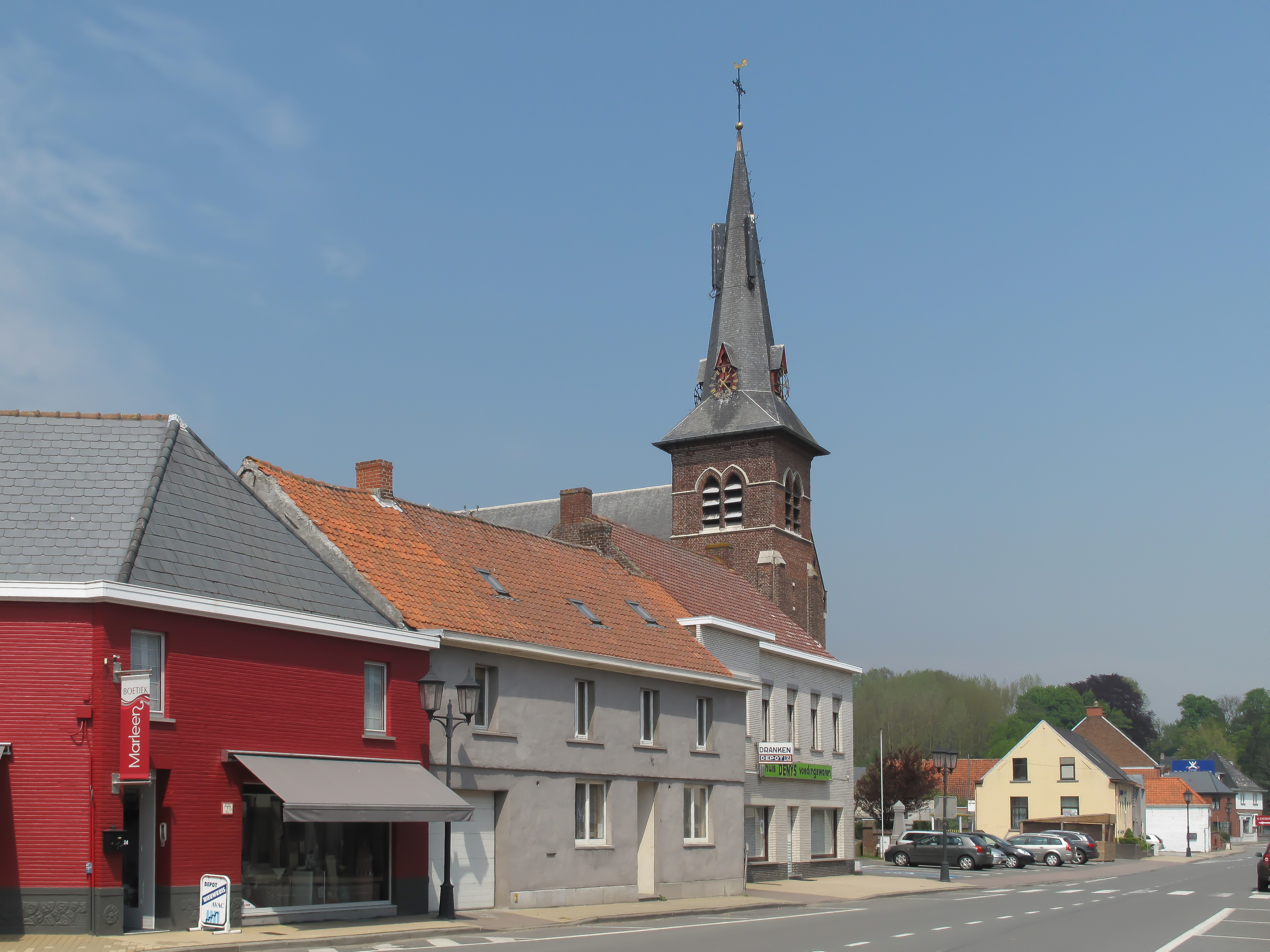 Munkzwalm, church: de parochiekerk Sint Mattheus